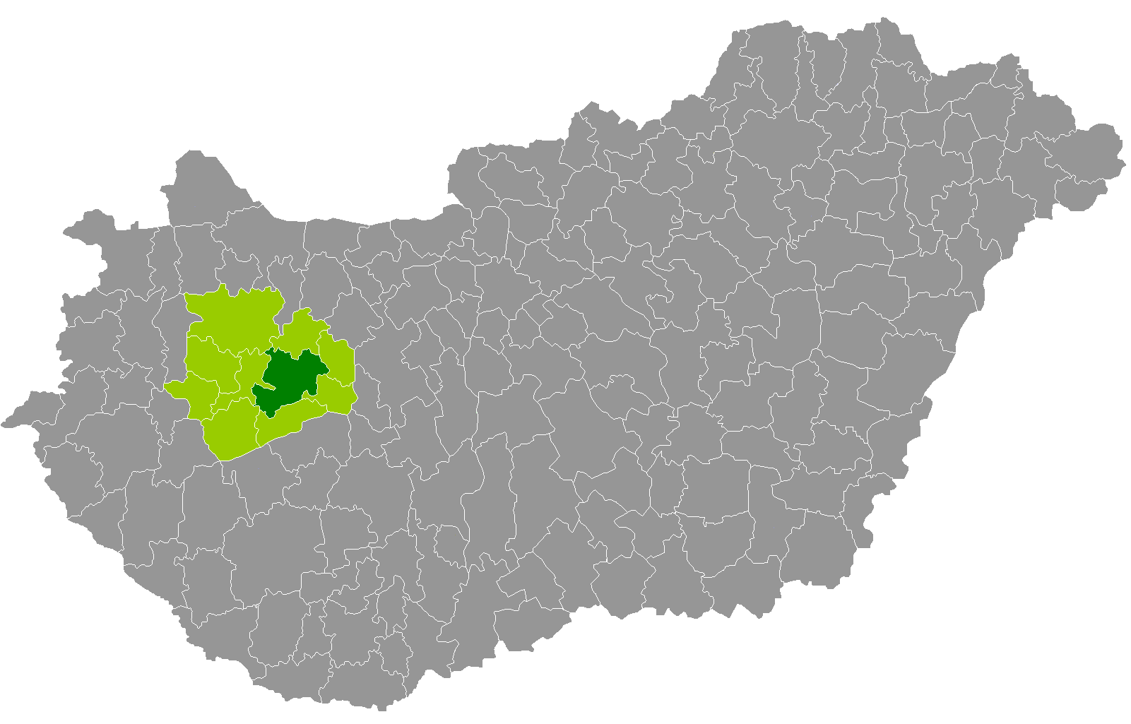 Location of Veszprém District, Veszprém, Hungary